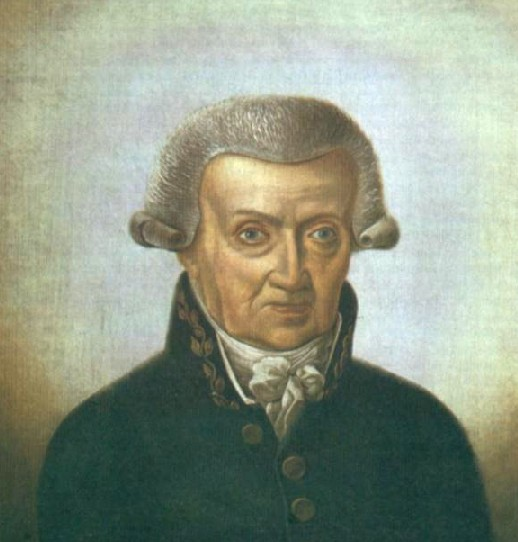 Portrait of Johann Chritoph Brotze